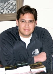 Author Kenneth Tam at Scifi on the Rock